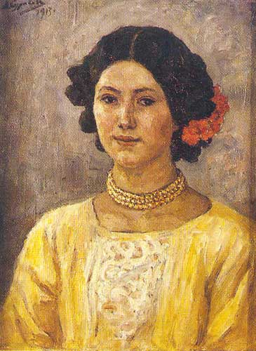 Cossack-girl.